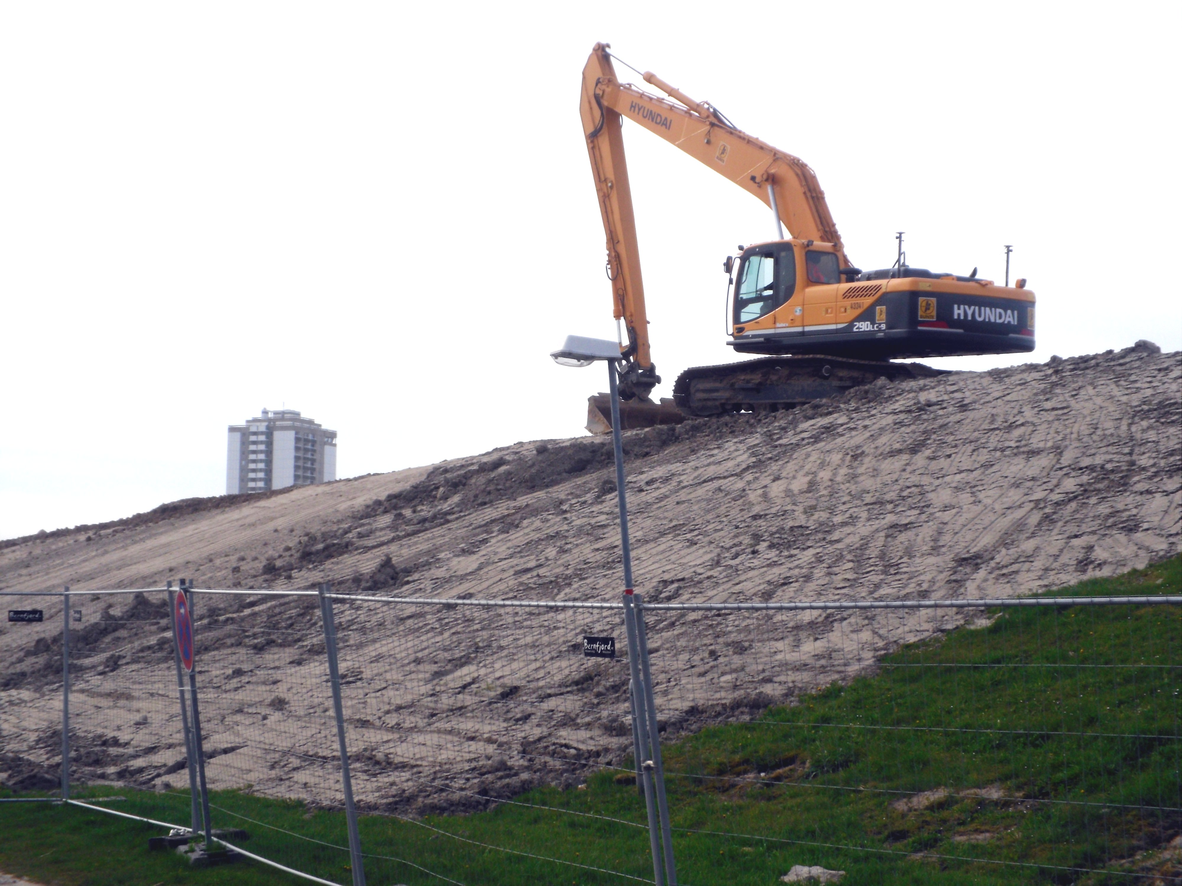 Hyundai excavator 290 LC-9 on a dike in Büsum, Germany